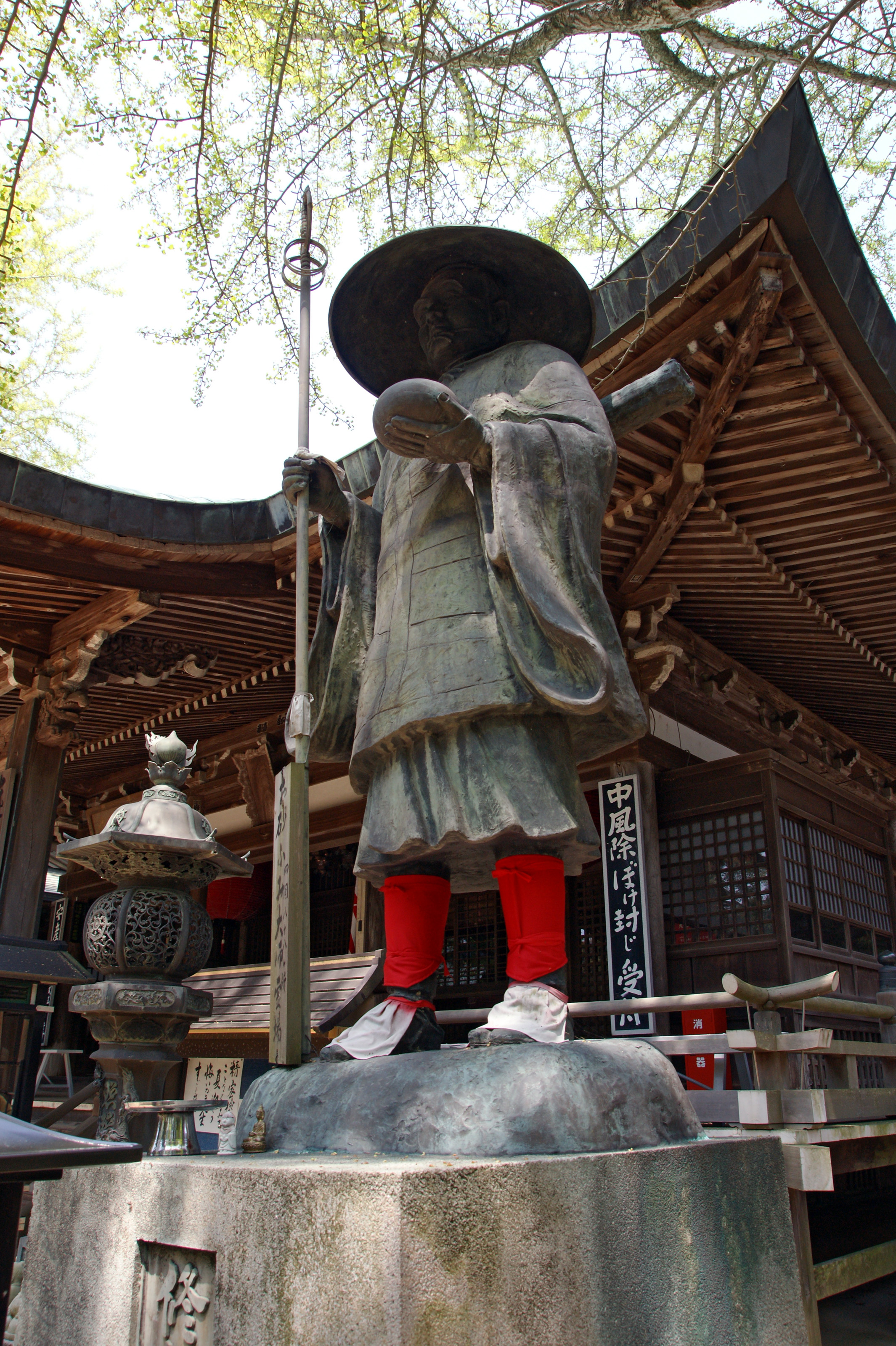 Tairyuji in Kobe, Hyogo prefecture, Japan